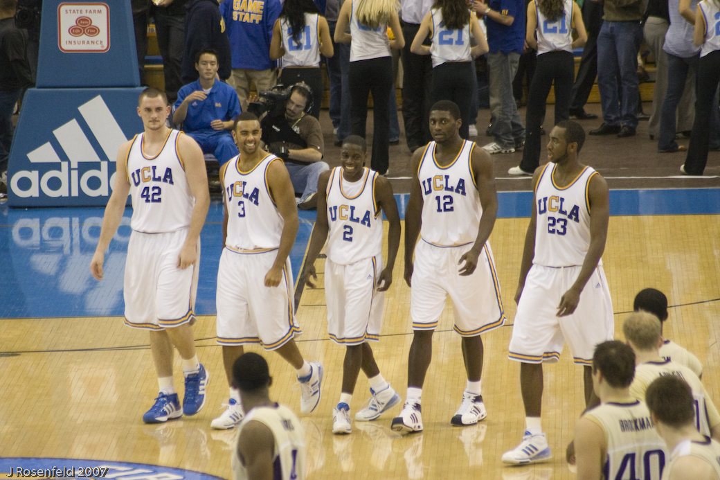 Love and Aboya are trying to intimidate the Huskies. Shipp and Collison aren't even concerned with their opponent.